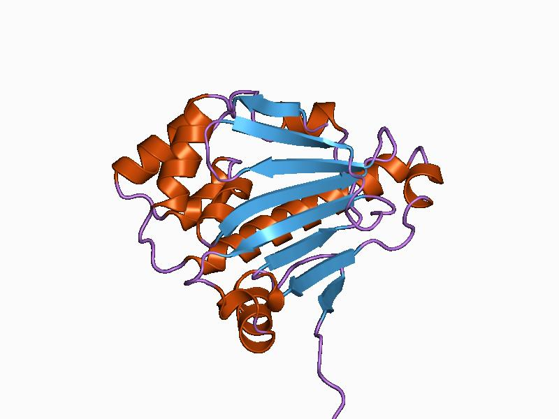 Cartoon representation of the molecular structure of protein registered with 1ah6 code.